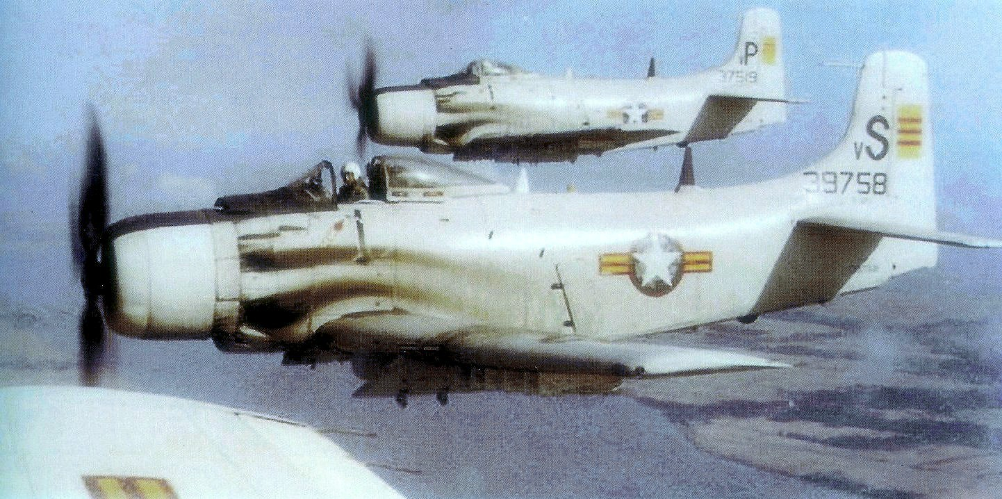 Two Douglas A-1H Skyraider of the South Vietnamese Air Force 520th Fighter Squadron, Binh Thuy Air Base.